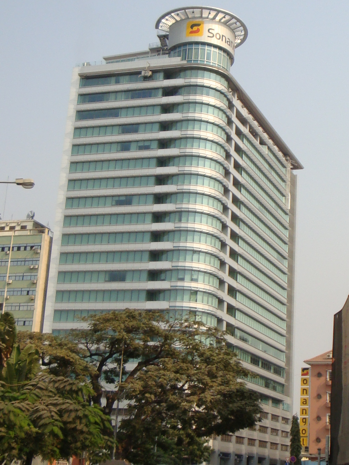 Sonangol headquarters building in Luanda, Angola